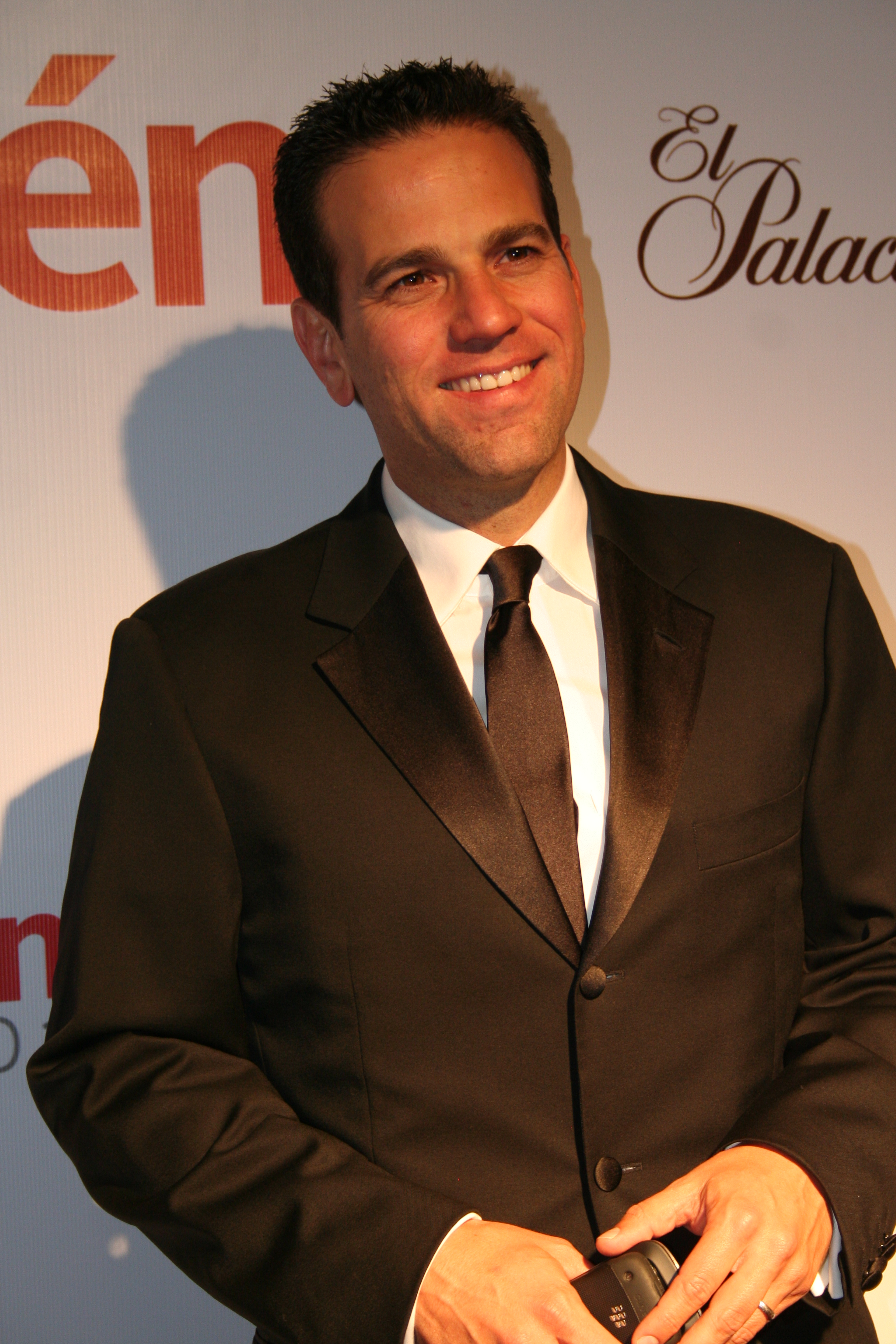 Carlos Loret at the 50 personajes que mueven a México 2012 sponsored by Quién magazine at the Museo Rufino Tamayo in Mexico City